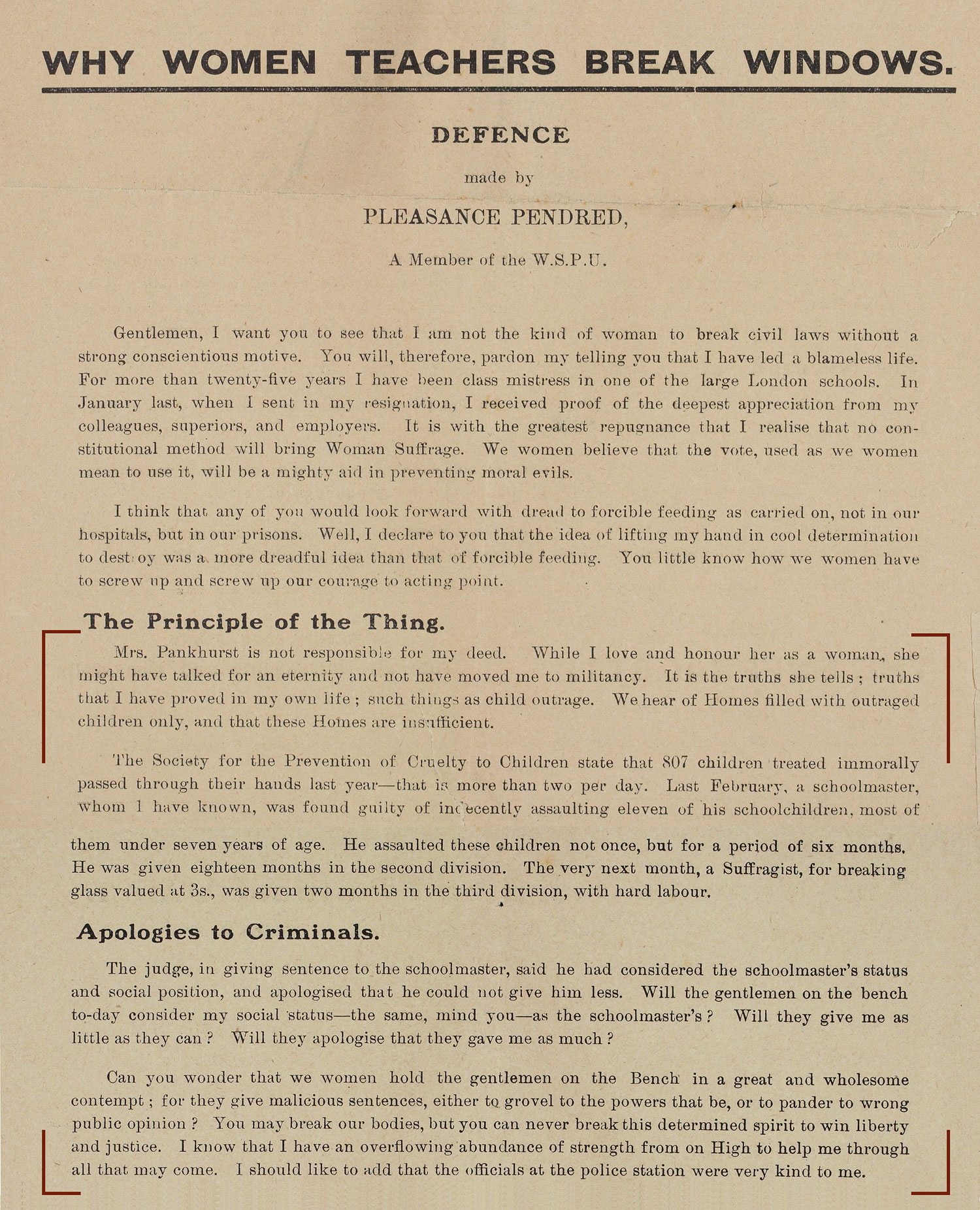 Source 31: Pamphlet - 'Why Women Teachers Break Windows', circa 1912 by Pleasance Pendred of the Women's Social and Political Union (WSPU). Arrested on 28 January 1913 for breaking windows in Westminster